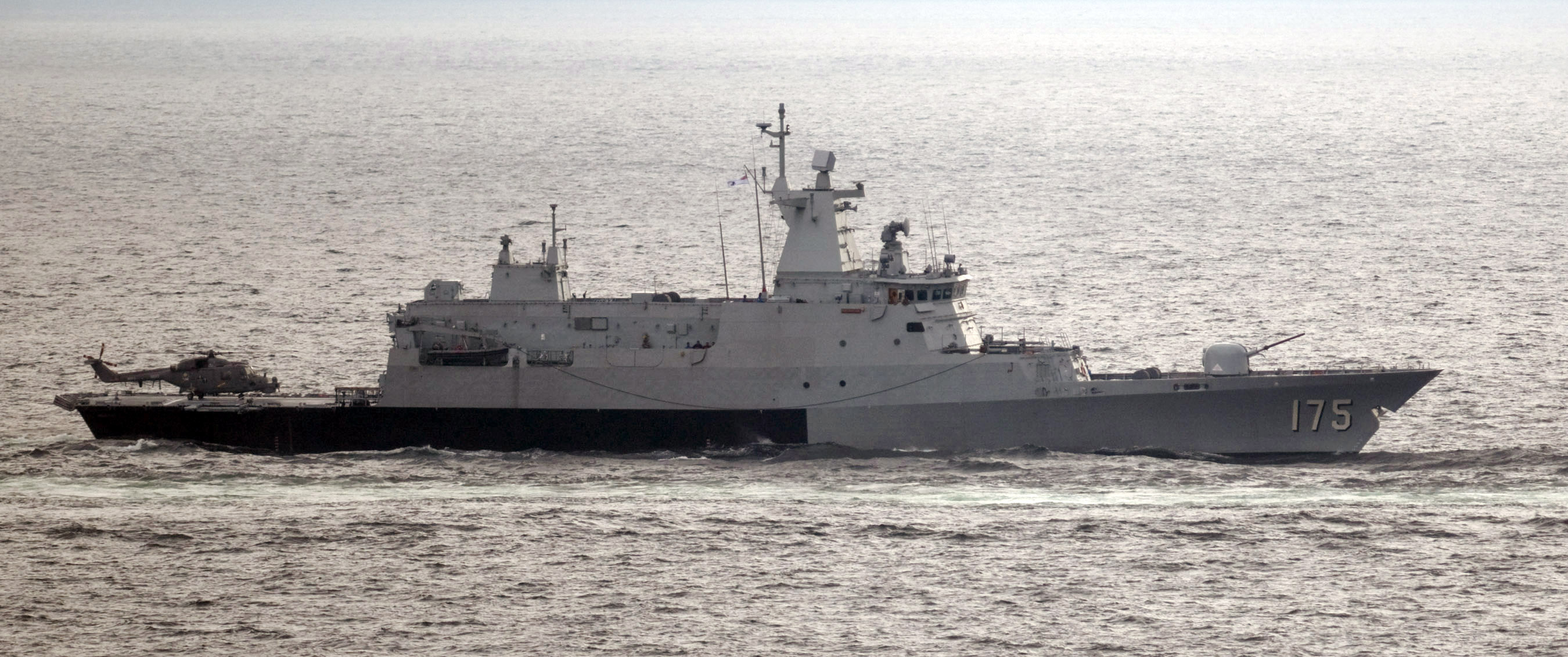 STRAIT OF MALACCA (Jan. 26, 2011) The Royal Malaysian Navy corvette KD Kelantan (175) is underway in the Strait of Malacca. (U.S. Navy photo by Mass Communication Specialist Seaman Nicolas Lopez/Released)